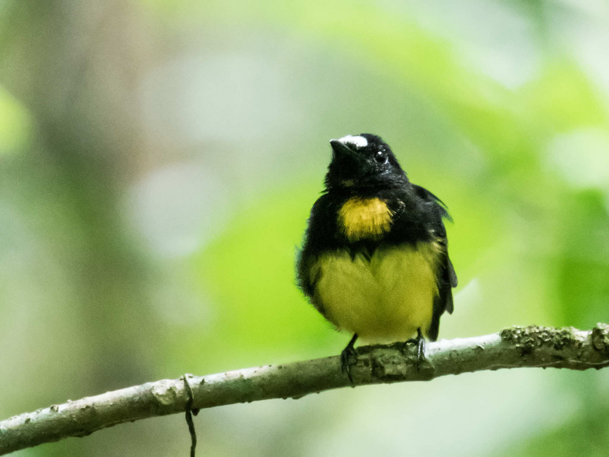 A male White-fronted Manakin from Brownsberg Nature Park, Brokopondo, Suriname.